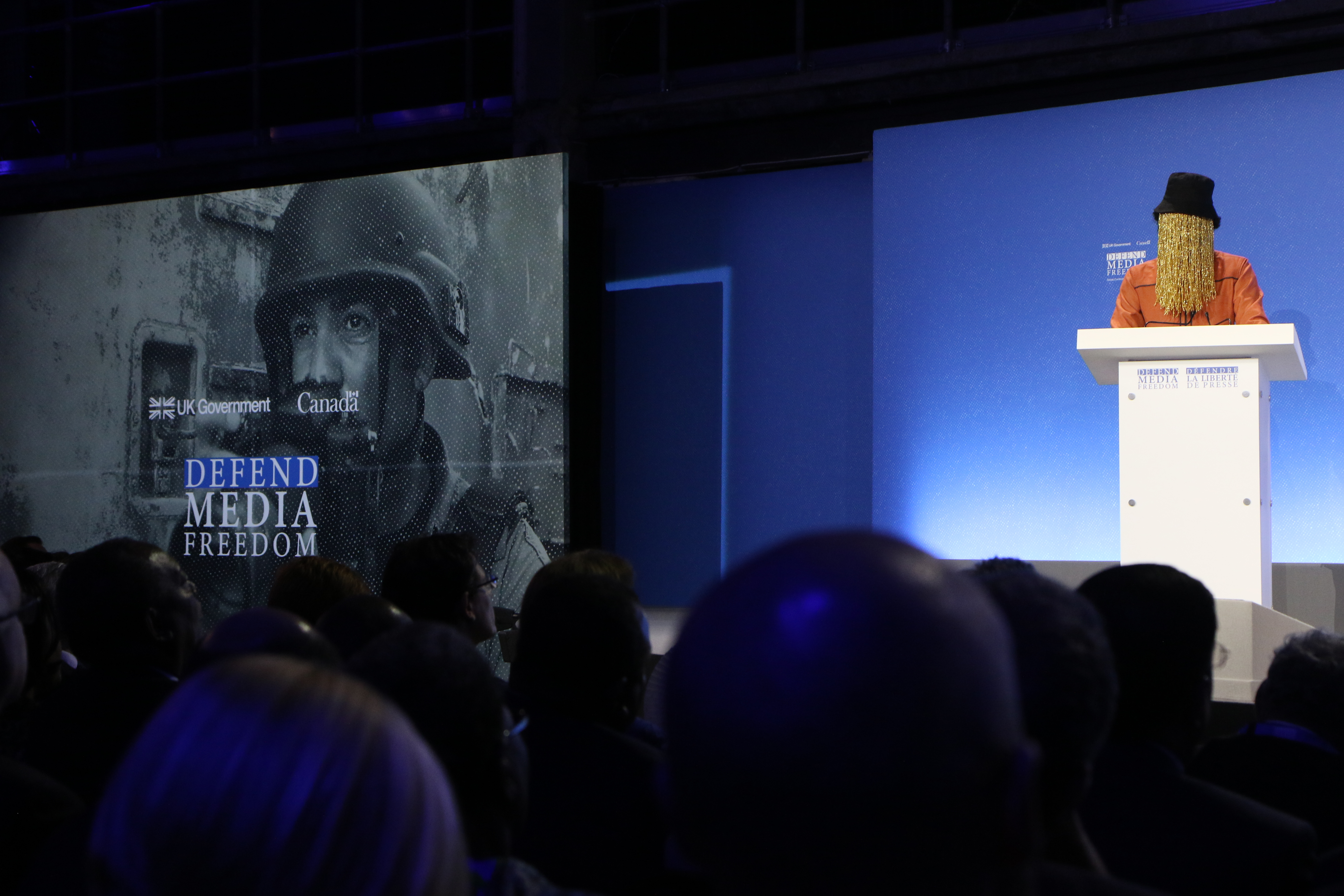 Anas Aremeyaw Anas, investigative journalist from Ghana at the Global Conference for Media Freedom in London.